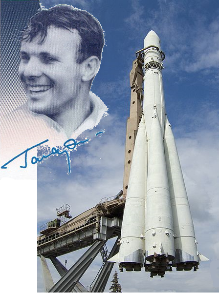 A collage made based on the photograph of the copy of the Vostok-K 8K72K space rocket and the Russian postal stamp with Yuri Gagarin